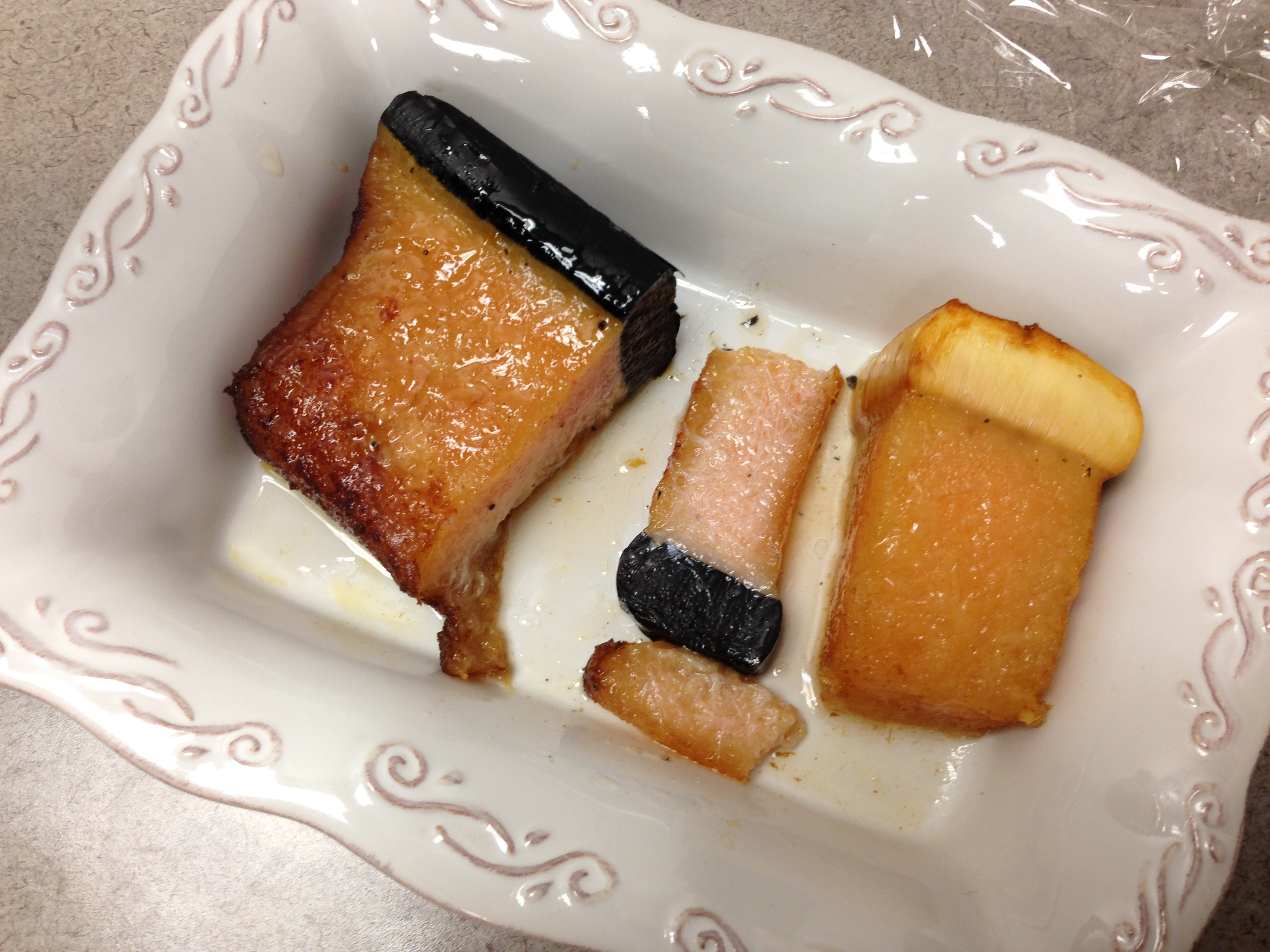 Well, maybe. I was offered to try some whale blubber for lunch. It doe *not* taste like chicken